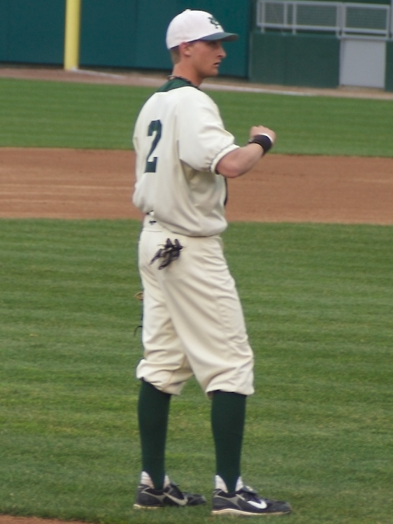 Eric Roof of the Michigan State Spartans plays third base during a 2007 exhibition against the Lansing Lugnuts at Cooley Law School Stadium in Lansing, Michigan.